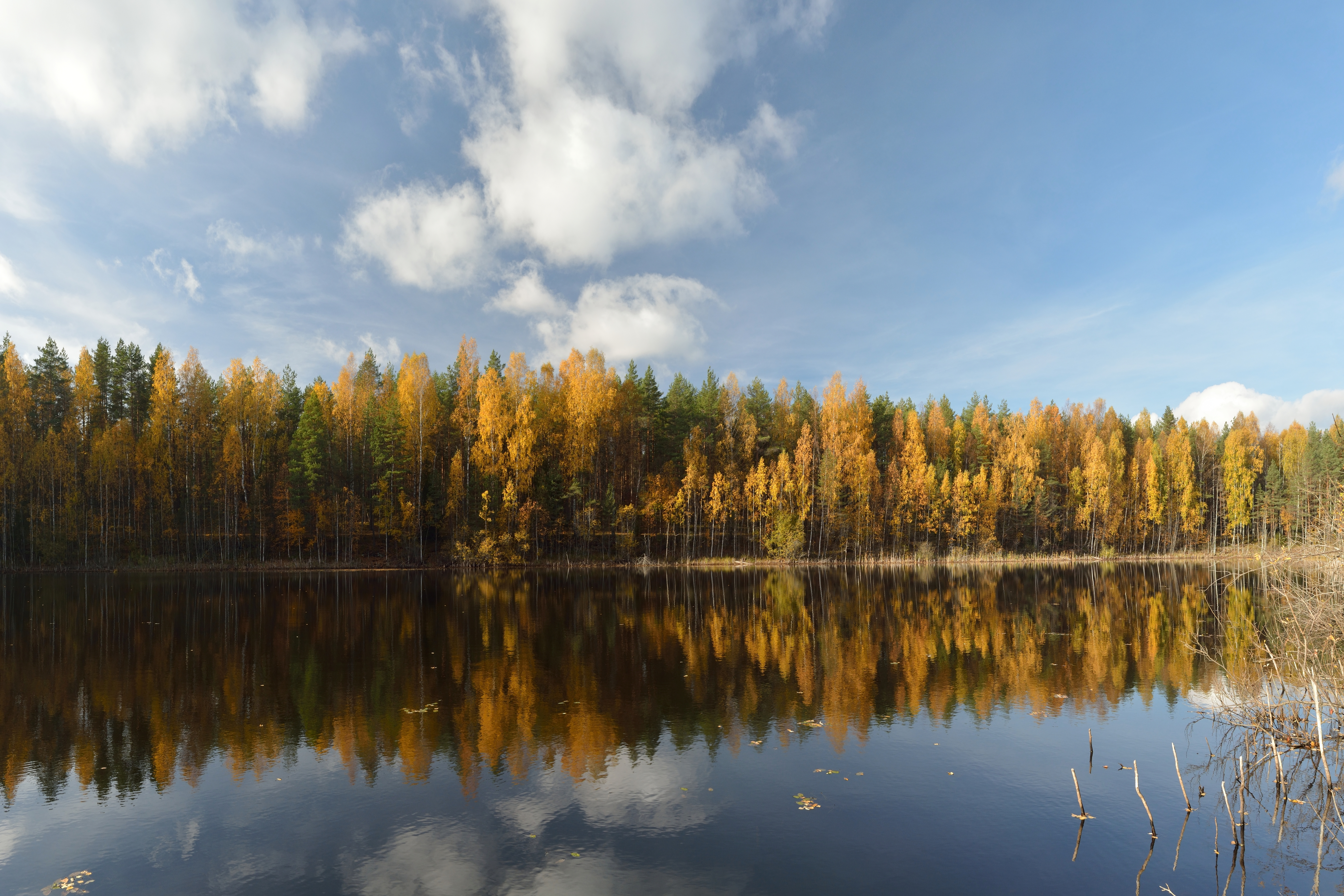 Lake Kuradijärv, Kurtna Landscape Reserve. Surface area 1.5 ha.